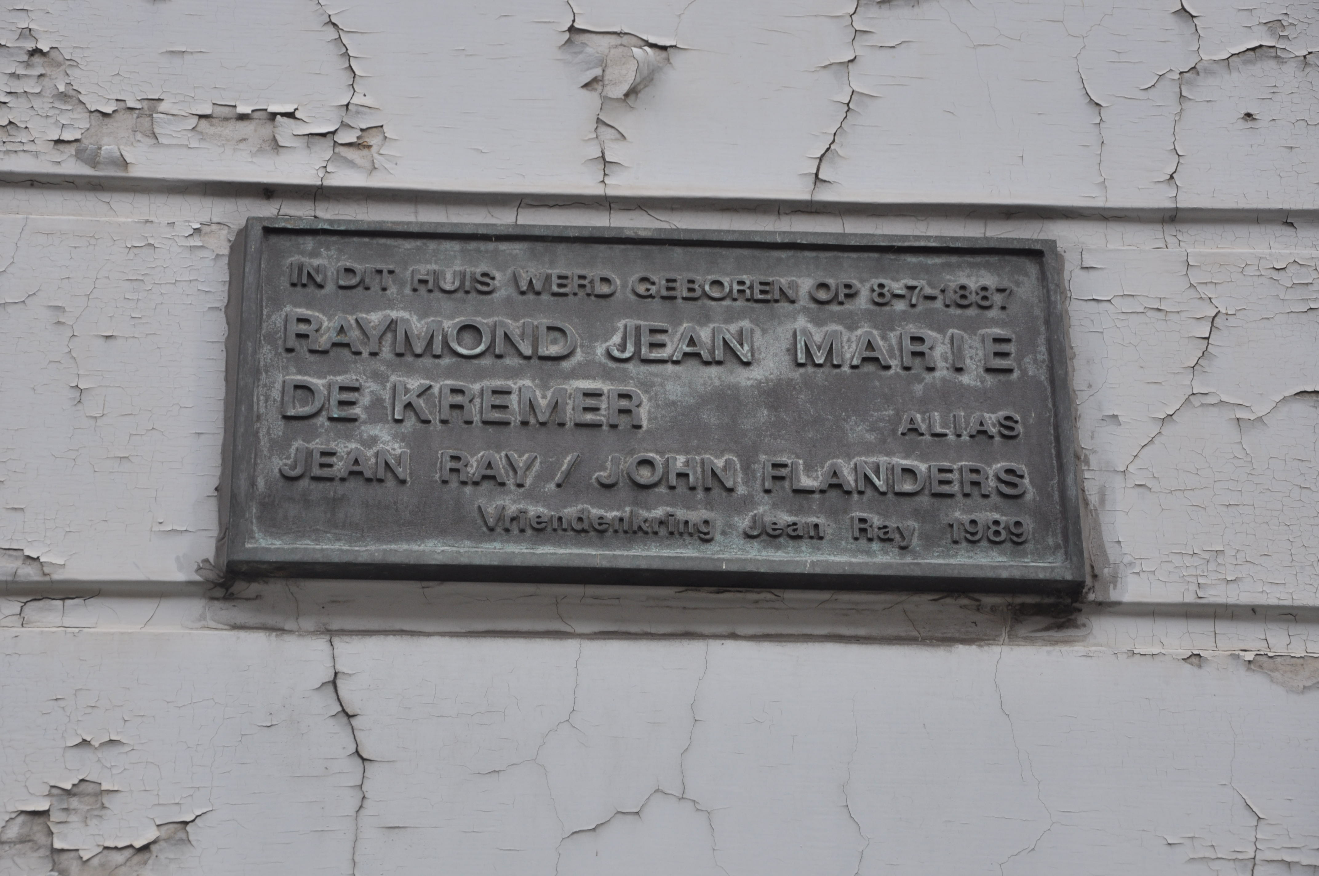 Plaque on the house 48, Ham street, Ghent, where Jean Ray was born.